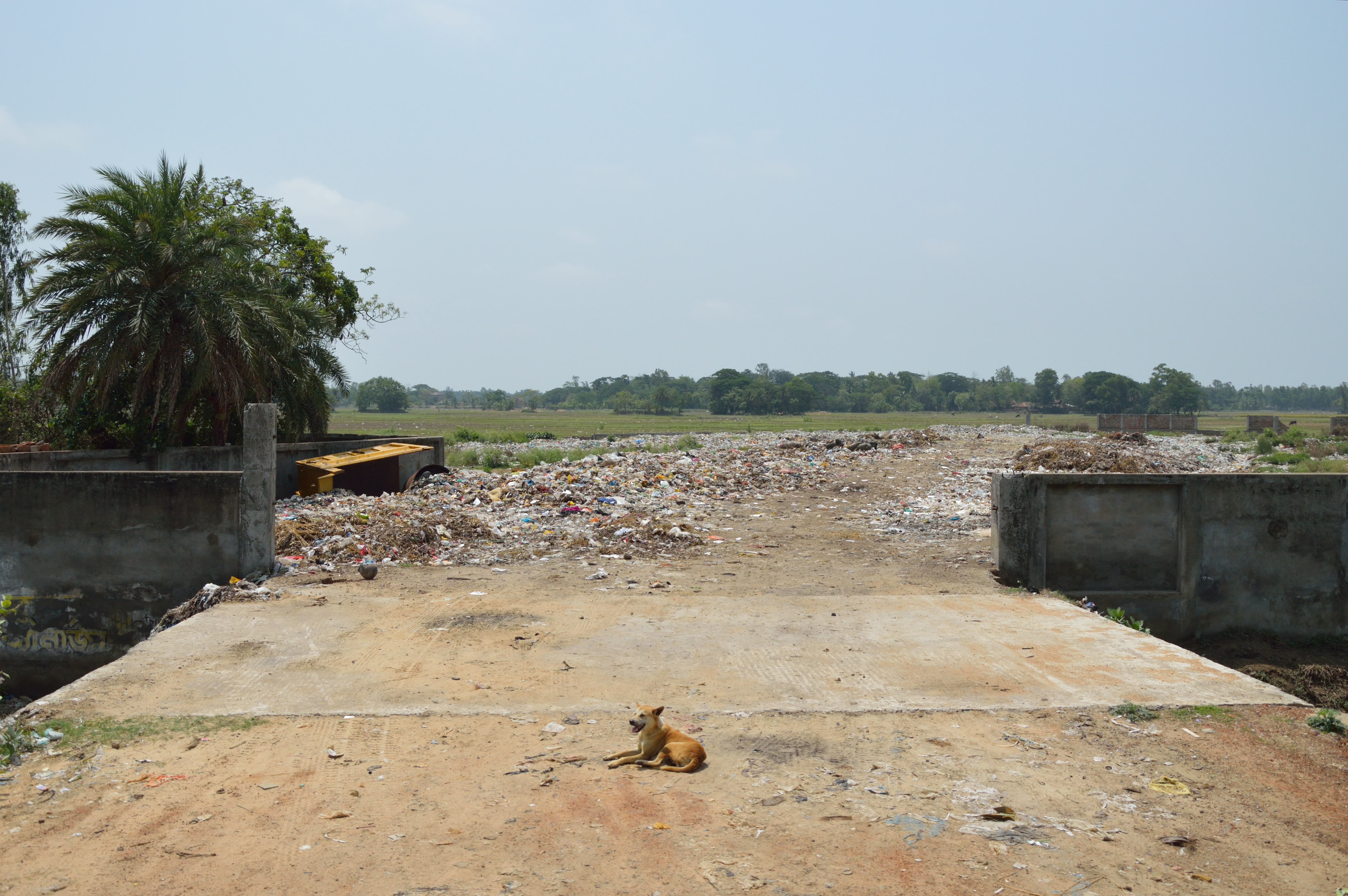 Photographed in Purba Medinipur, West Bengal.